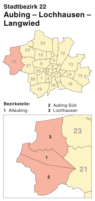 Boroughs of Munich map series